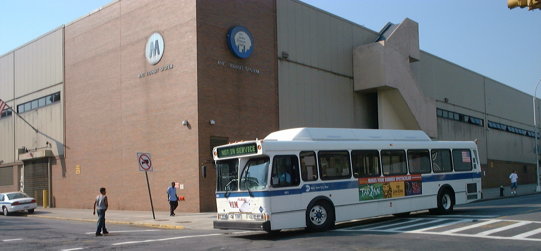 Orion V CNG Bus inbound to Jackie Gleason Depot